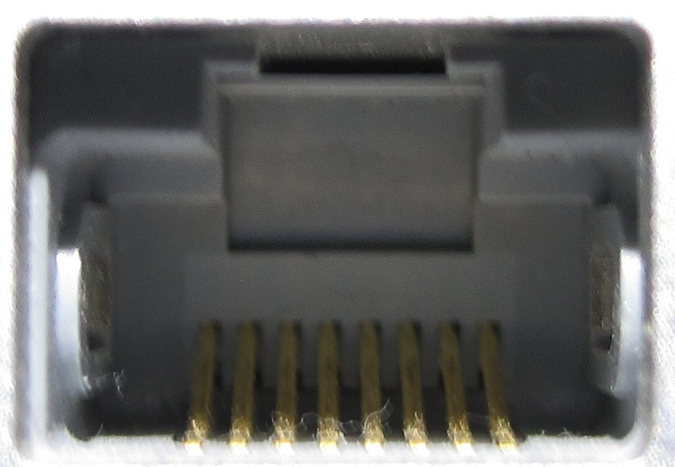 RJ－45 Connector